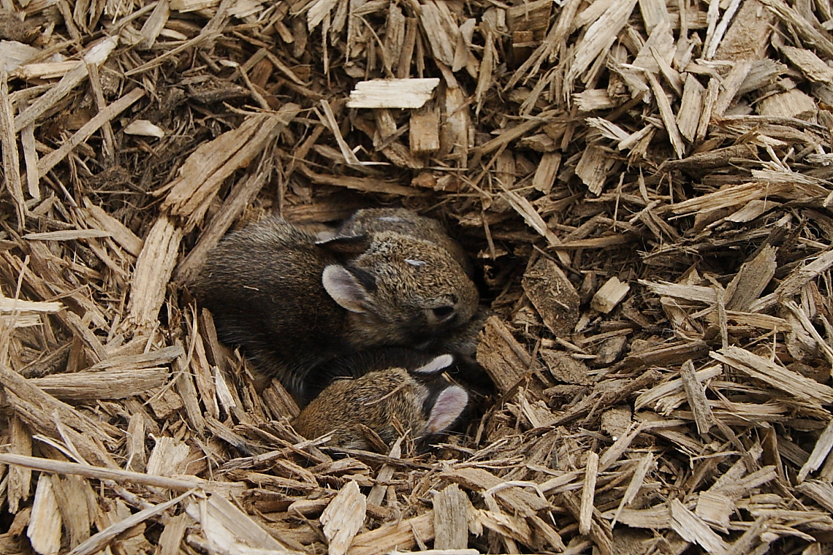 Rabbit nest found in playground wood chips, O'Fallon, Illinois 2007.